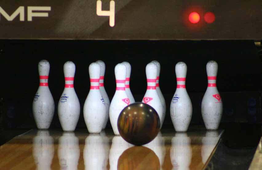 bowling